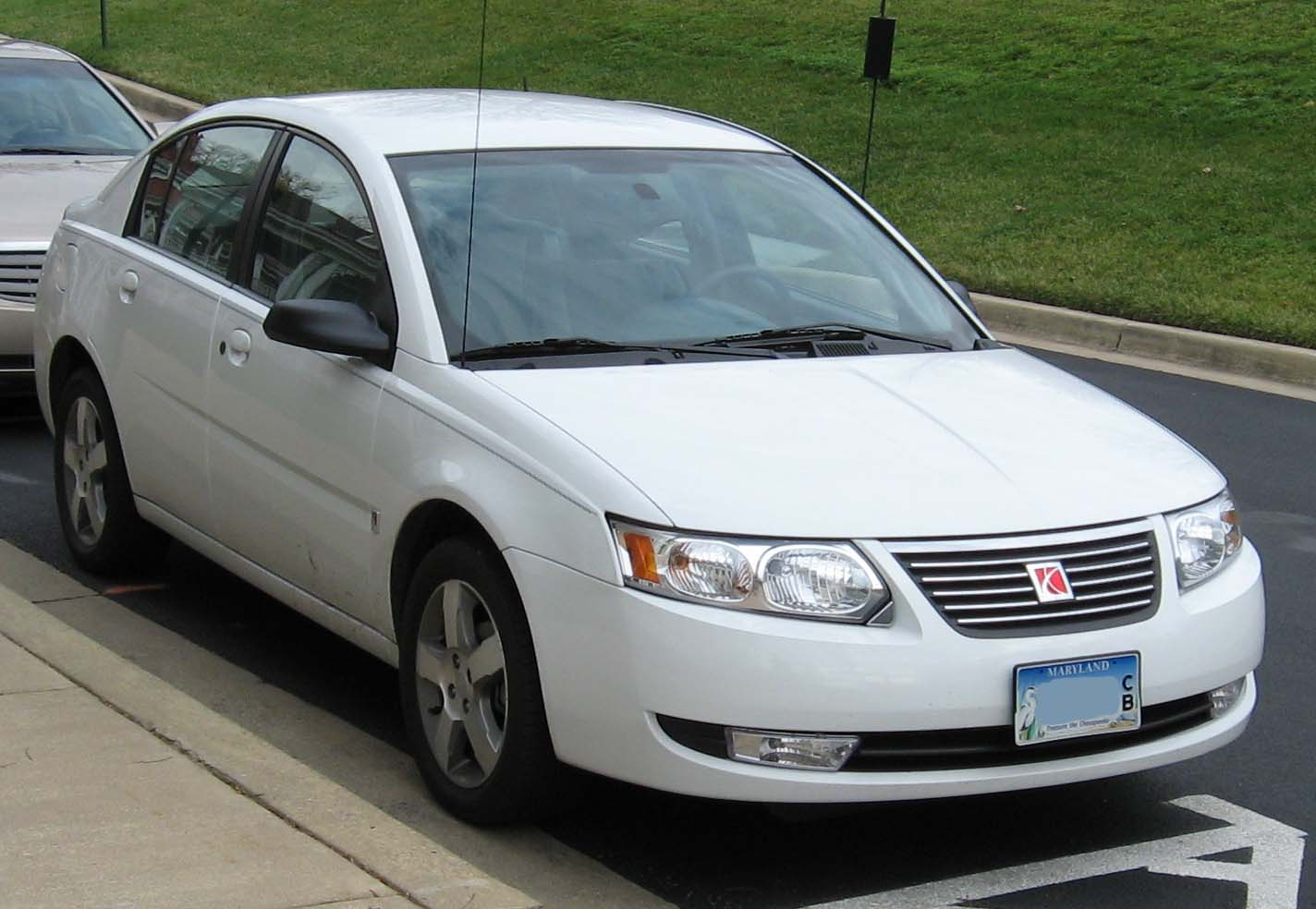 2005 Saturn Ion photographed in USA.